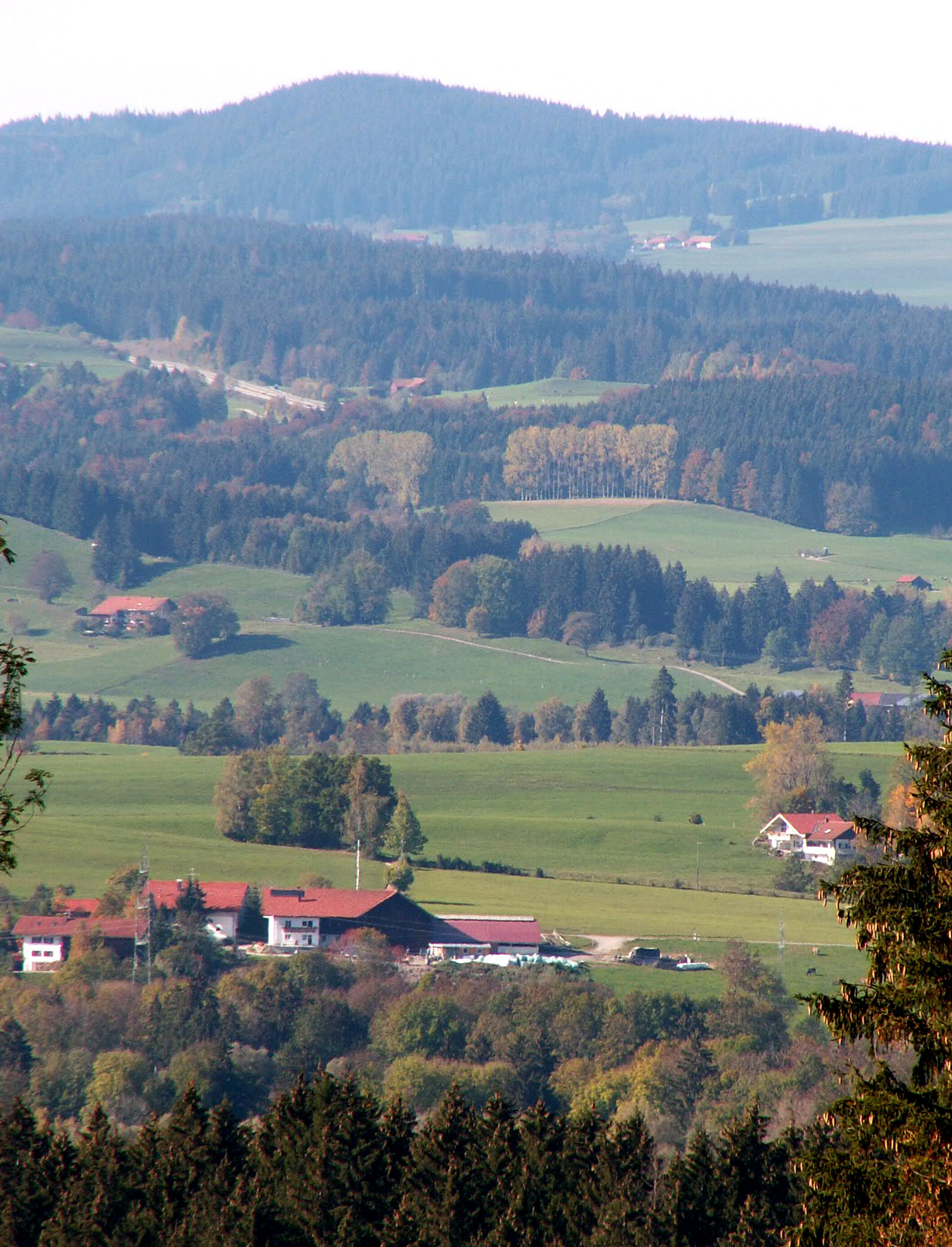 Blick übers Illertal vom Buch bei Sulzberg zum Hohenkapf (1122 m)